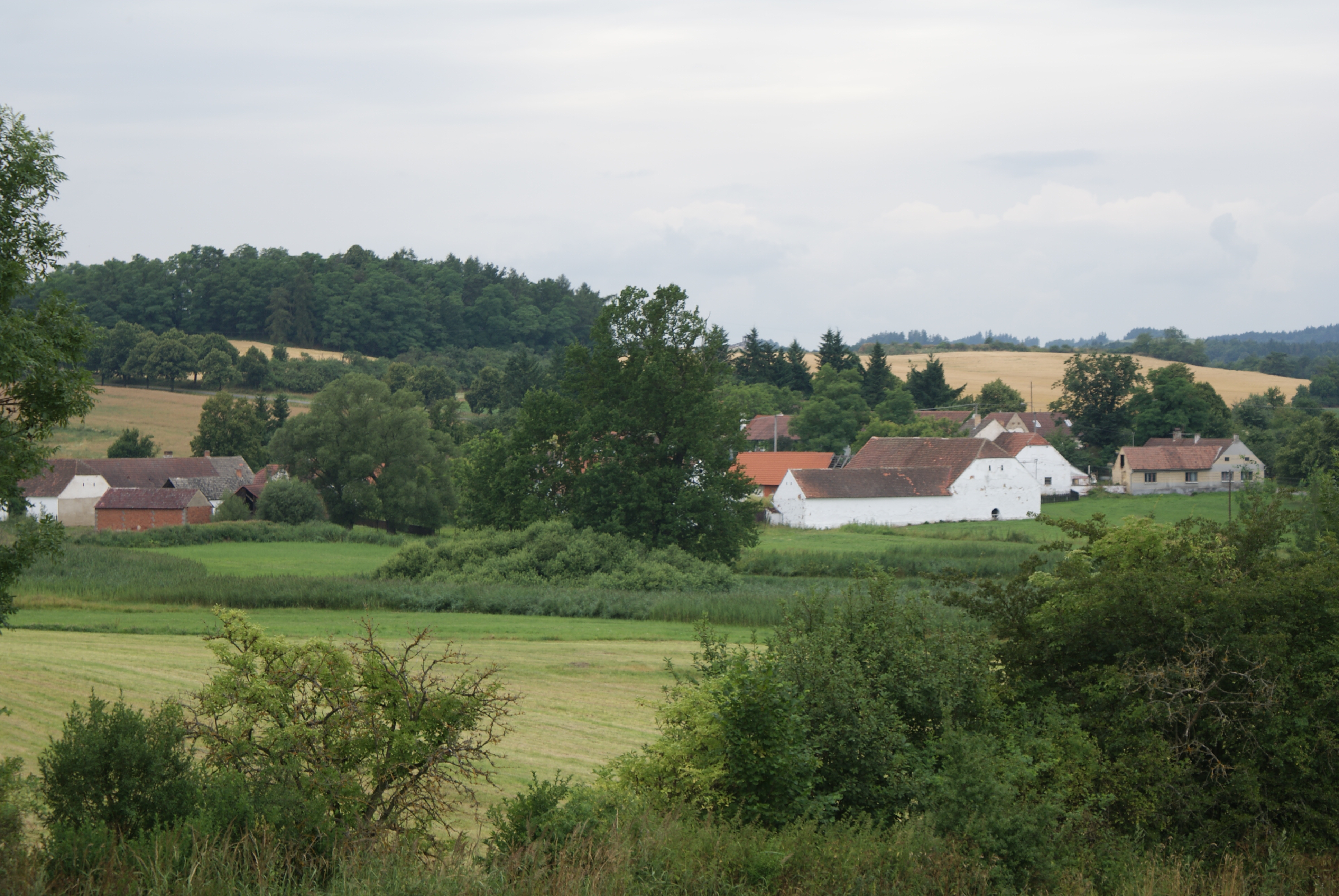 Soběšice (Předotice), a village in Písek district, Czech Republic, general view.